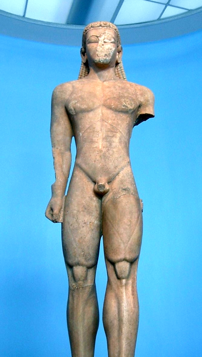 So-called "Sounion Kouros" without restorations.